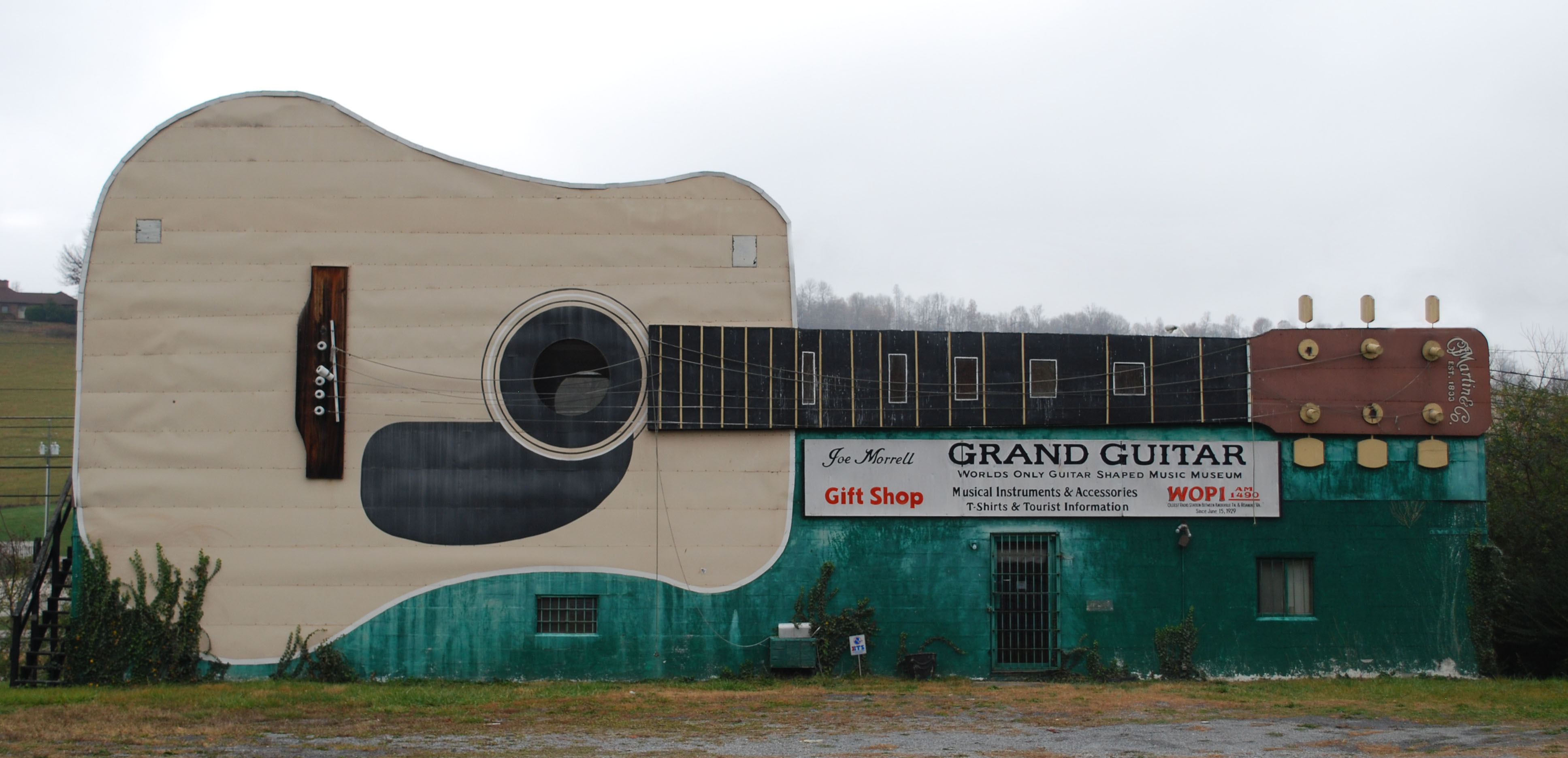 70 foot long Martin guitar built by Joe Morrell